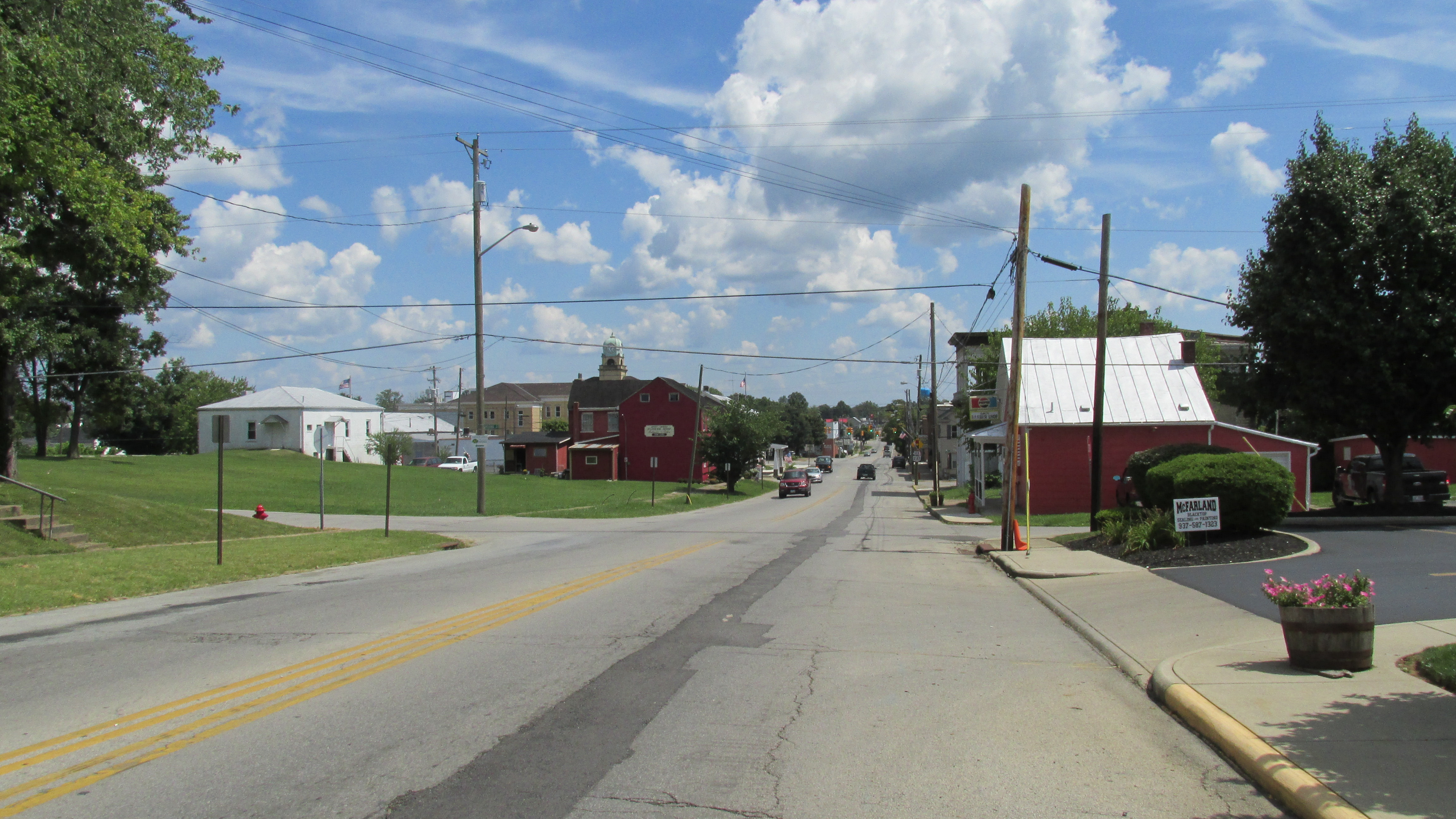 Looking east on Main Street (Ohio Highway 125) in West Union, Ohio.